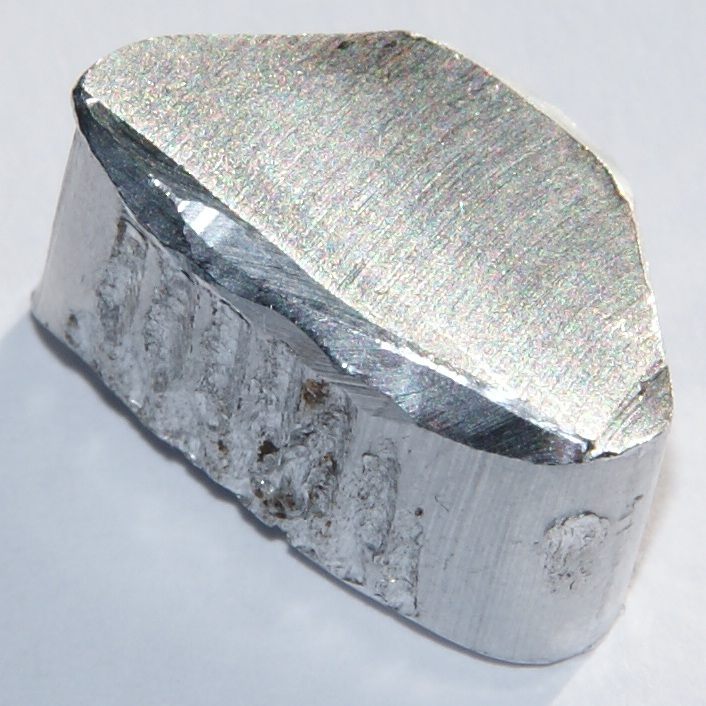 Chunk of aluminium, 2.6 grams, 1 x 2 cm.